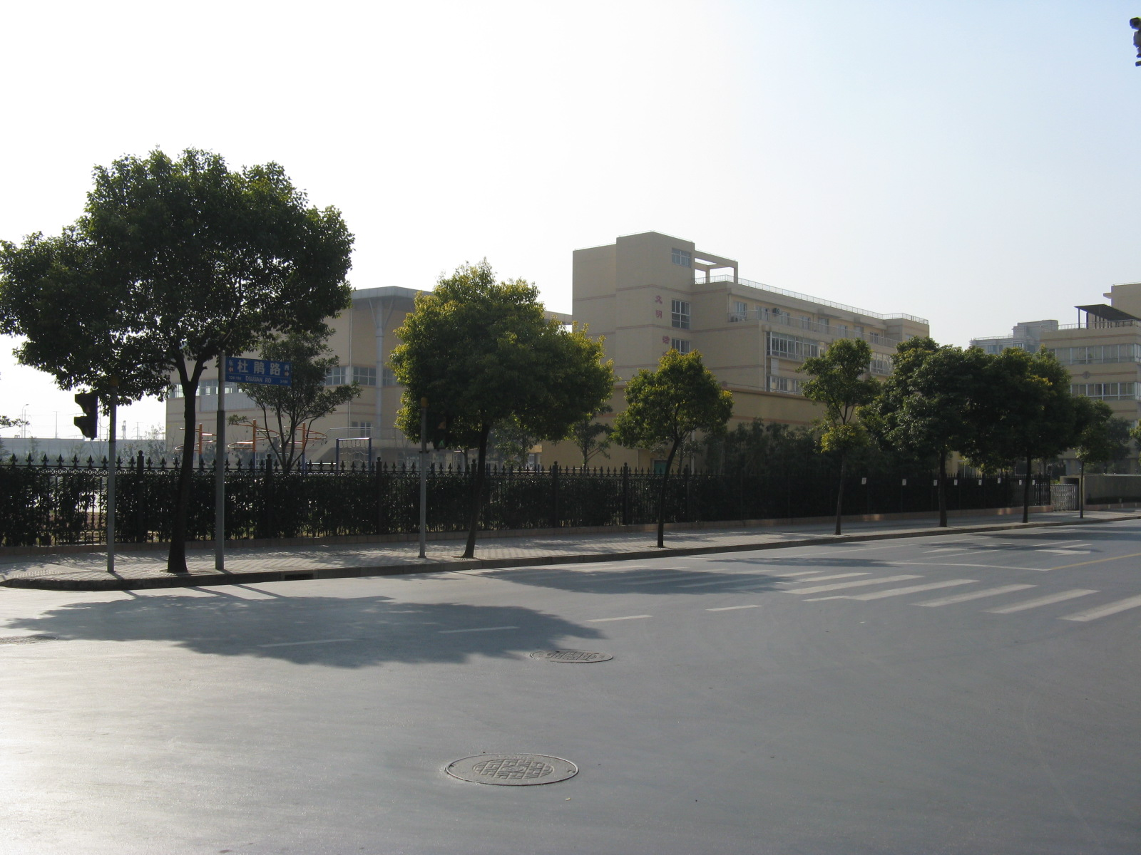 Dujuan Road,Shanghai,China